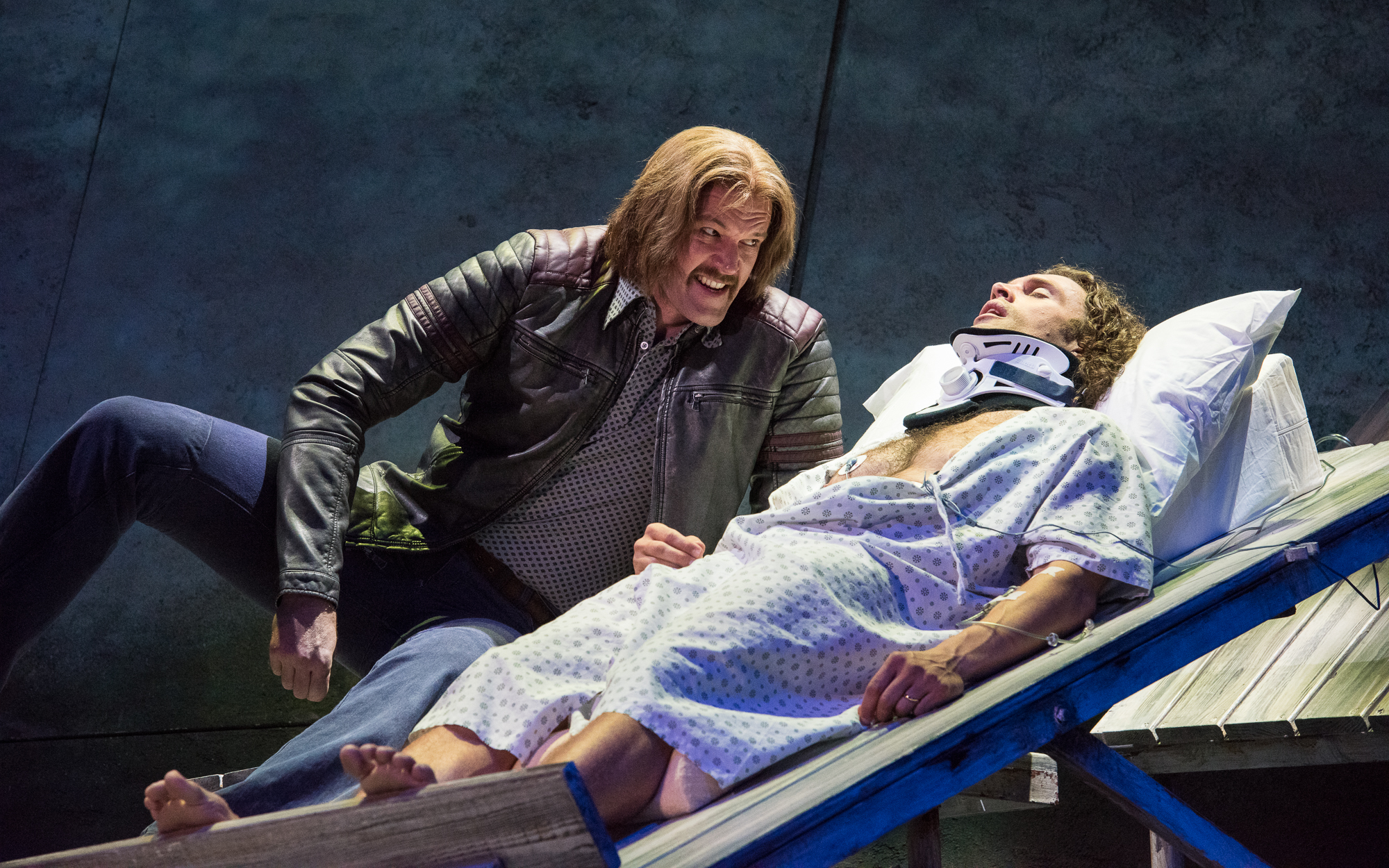 September 20, 2016 Kimmel Center Philadelphia, PA Photo by Steven Pisano.